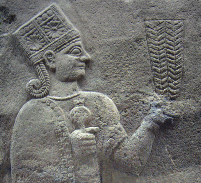 Relief of the goddess Kubaba, holding a pomegranate in her right hand; orthostat relief from Herald's wall, Carchemish ; 850-750 BC; Late Hittite style under Aramaean influence. Museum of Anatolian Civilizations, Ankara, Turkey